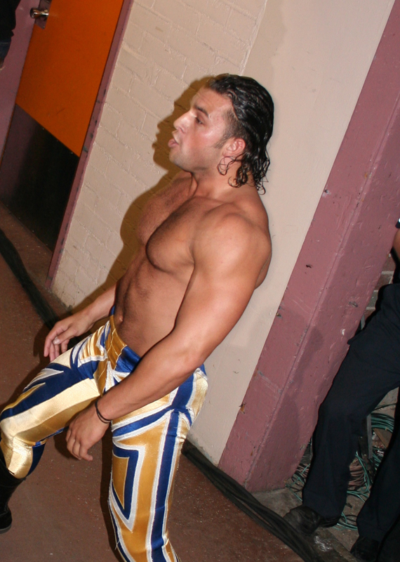 don't really know much about him, sorry. used on the website online world of wrestling for his profile pagehere.